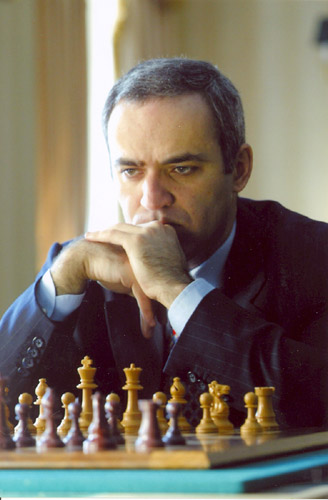 Chess grandmaster Garry Kasparov in 2003.